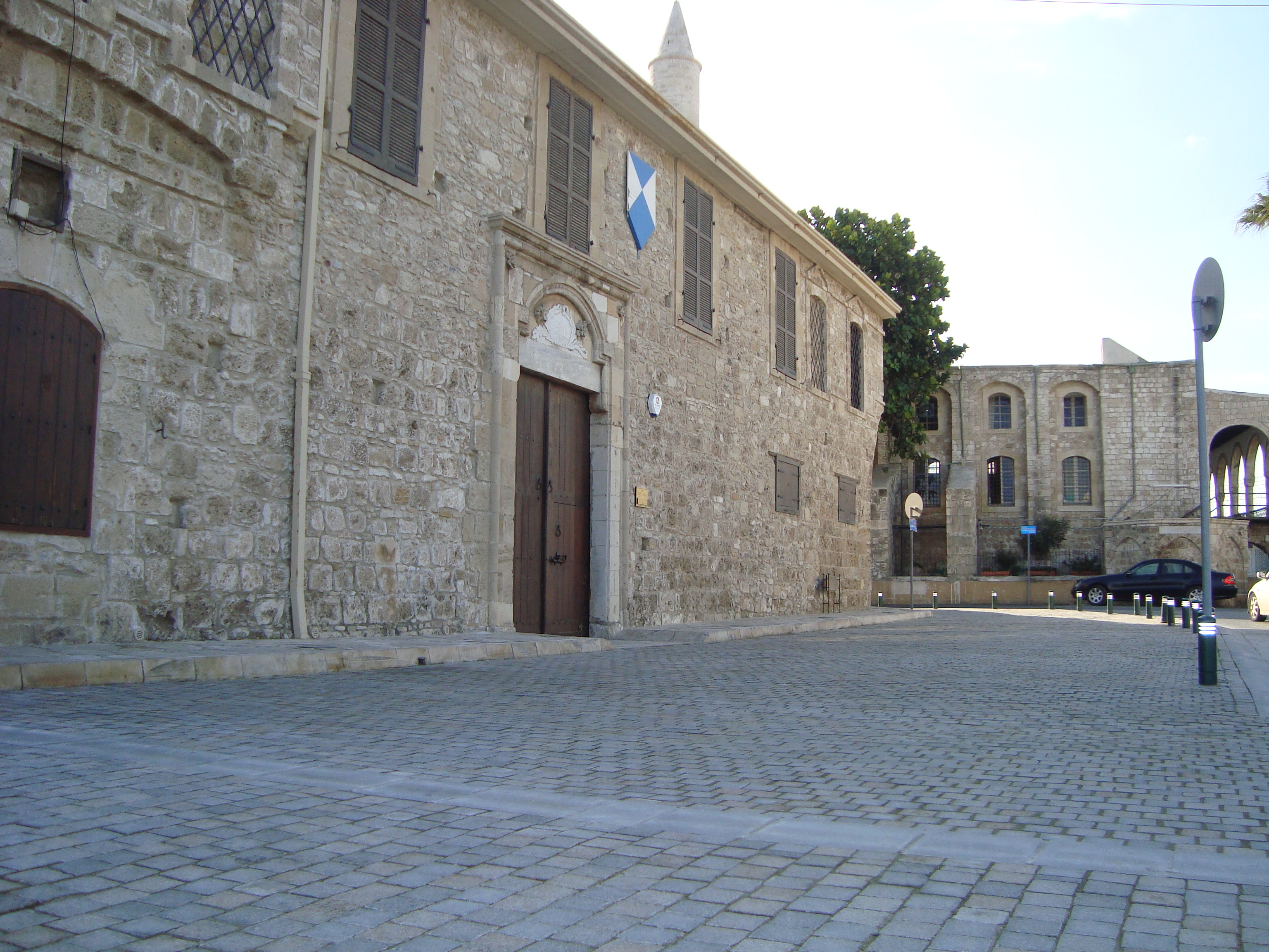 Entrance of Ancient Larnaca Castle in Cyprus